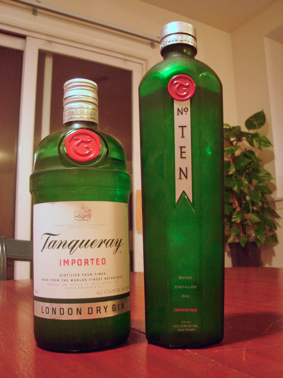 so. i bought myself two Christmas presents. bottle of tanqueray and a bottle of tanqueray ten. merry Christmas, me!